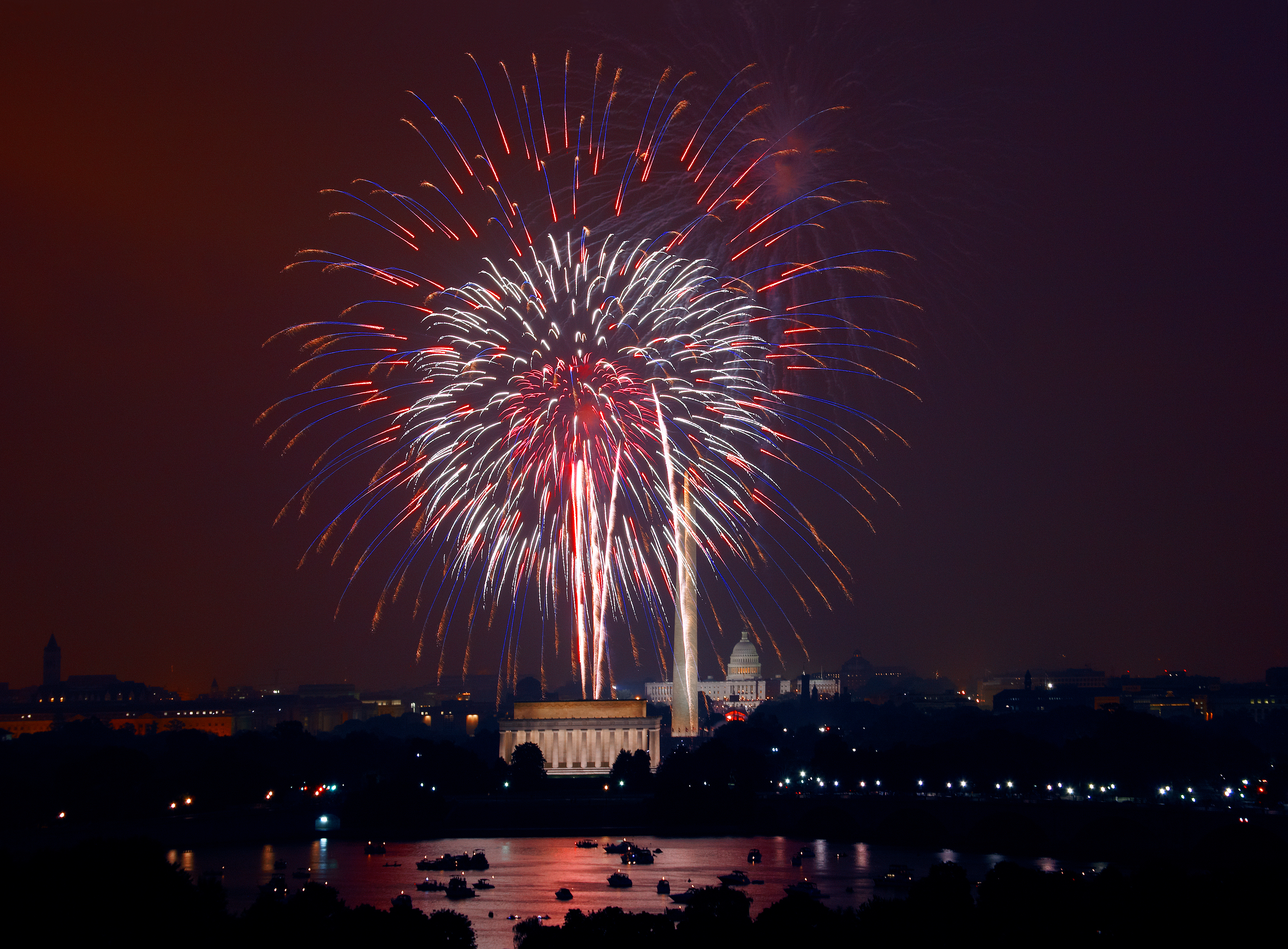 July 4th fireworks, Washington, D.C. 2008 July 4. 1 photograph : digital, TIFF file, color. Washington, D.C., is a spectacular place to celebrate July 4th! The National Mall, with Washington D.C.'s monuments and the U.S. Capitol in the background, forms a beautiful and patriotic backdrop to America's Independence Day celebrations. Credit line: Carol M. Highsmith's America, Library of Congress, Prints and Photographs Division. Repository: Library of Congress, Prints and Photographs Division, Washington, D.C. 20540 USA, More information about the Highsmith Collection is available at Call Number: LC-DIG-highsm- 04694